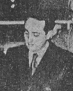 Bartolomé Mitre (IV) CEO of La Nación newspaper and Héctor Magnetto CEO of Clarín newspaper, inaugurating Papel Prensa SA (newsprint company).